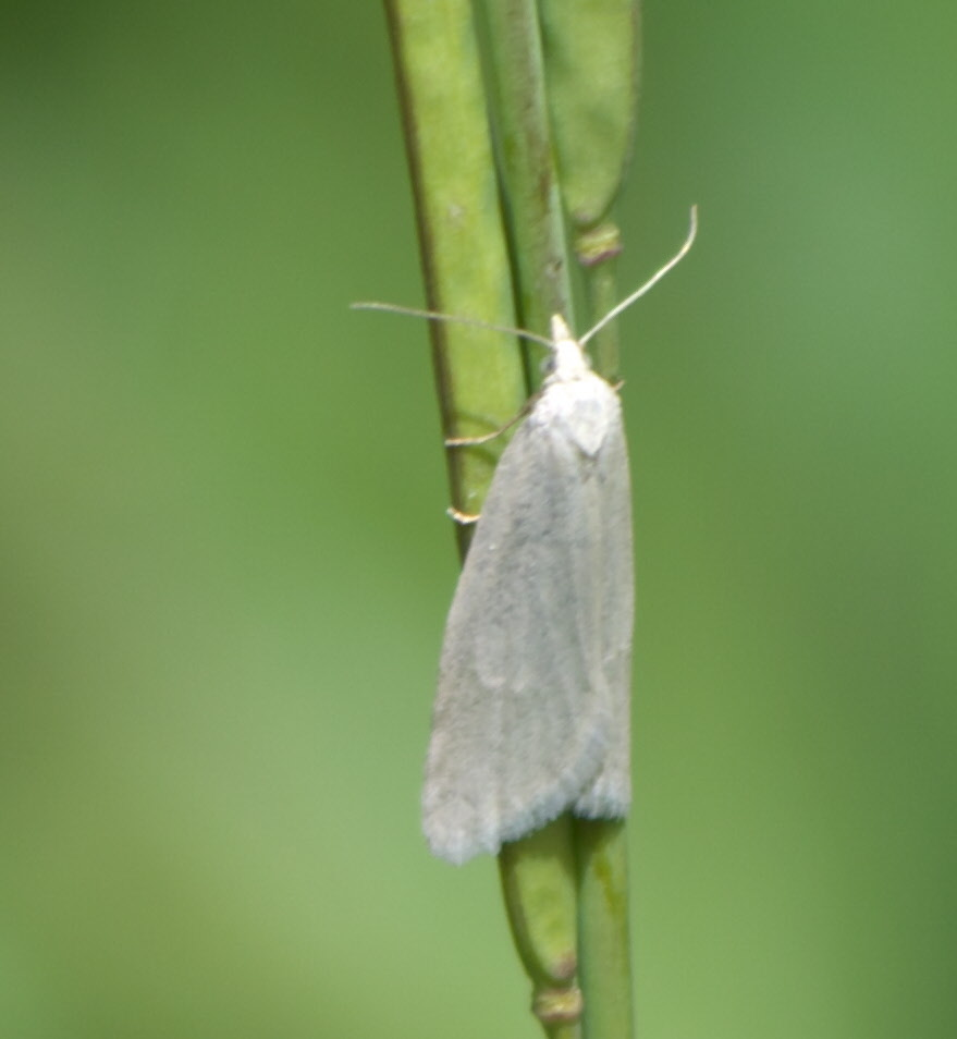 Eana, Family: Tortricid Moths